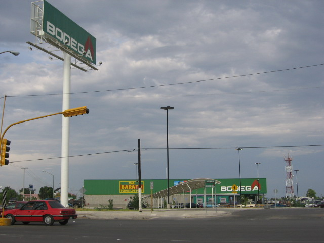 Bodega Aurrerá in Piedras Negras